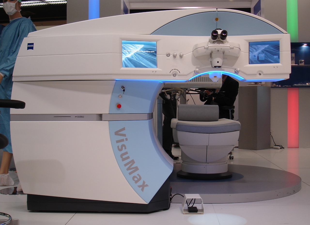 Ophtalmic femtosecond laser from Carl Zeiss Meditec